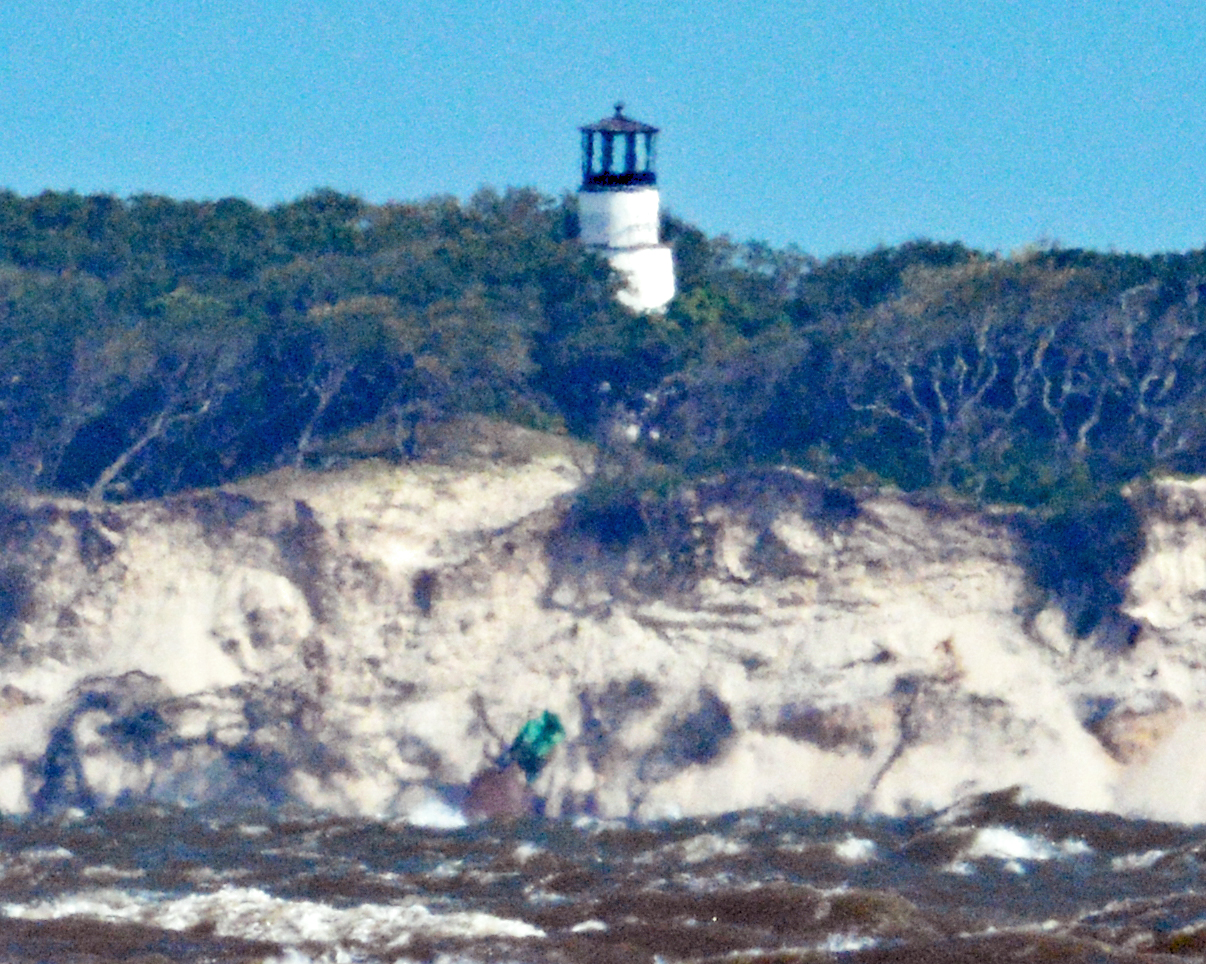 The lighthouse on Little Cumberland Island, Georgia, US - as seen from Jekyll Island (about 4.5 kilometers away)